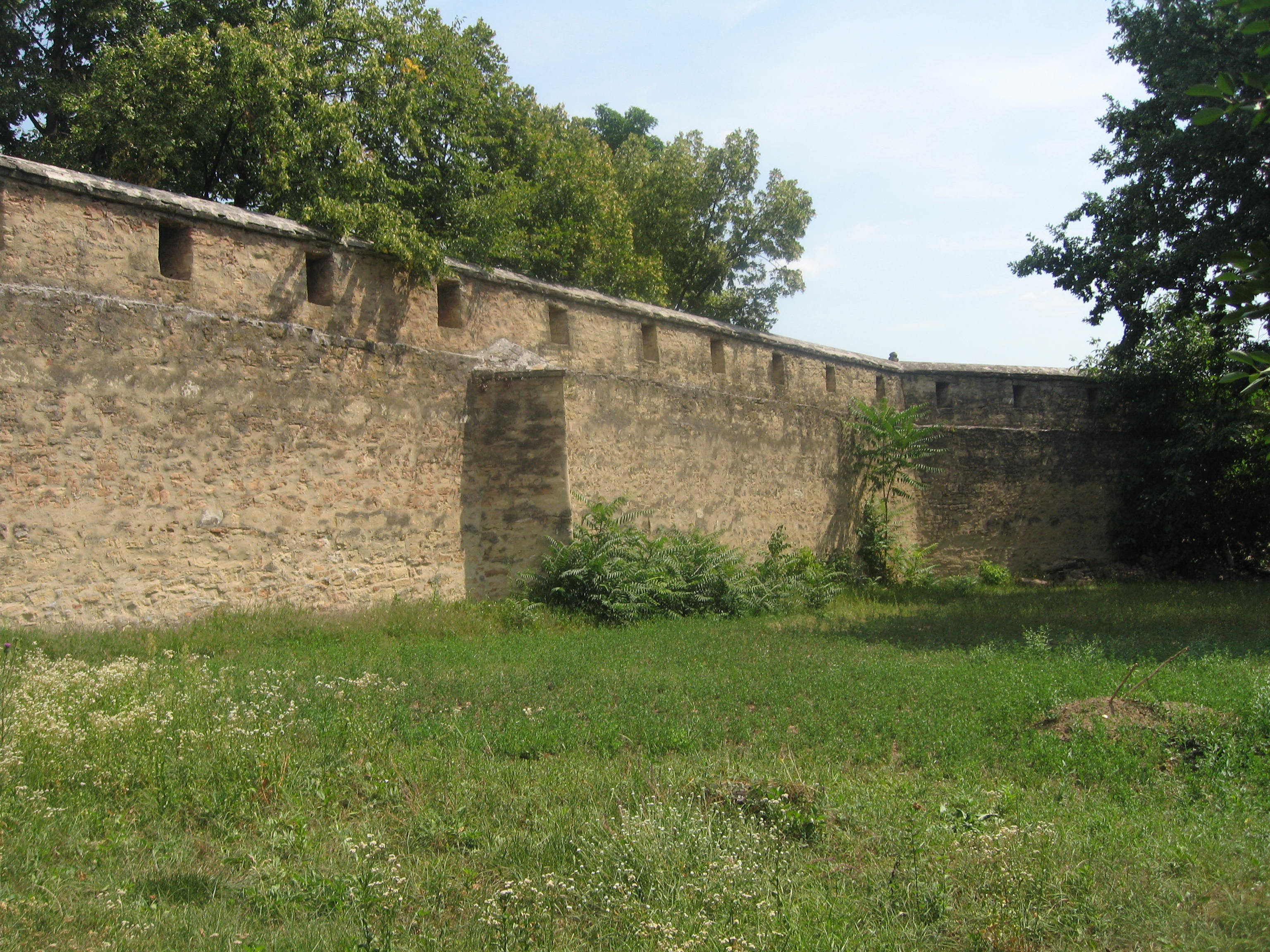 Manastirea Galata 04